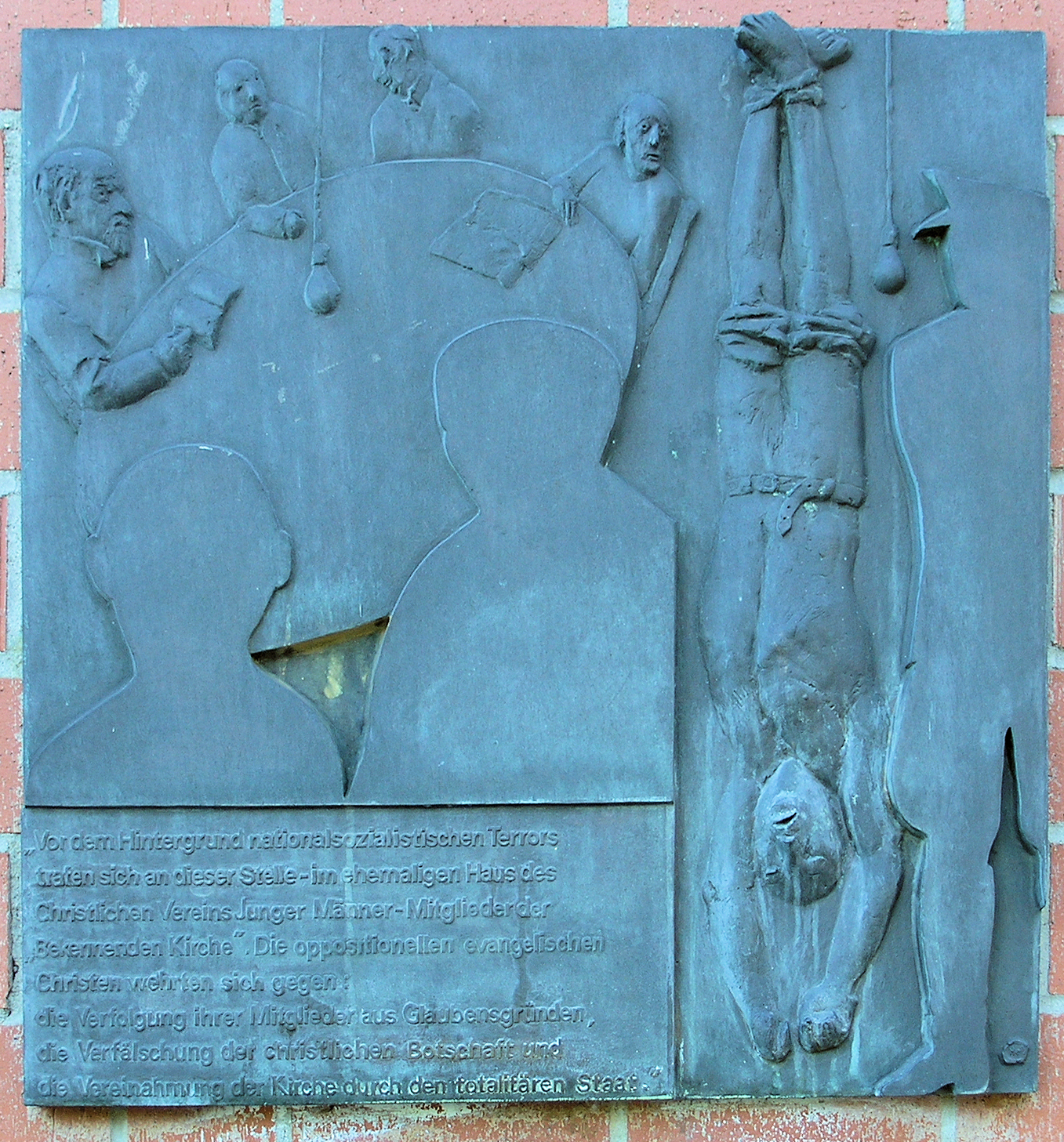 Memorial plaque for meetings of Confessing Church activists in the YMCA building, Wilhelmstraße 36, Berlin-Kreuzberg, Germany. The head of the person left shows the contours of Otto Dibelius. Koordinate:52°30′21″N 13°23′12″E / 52.50583°N 13.38667°E